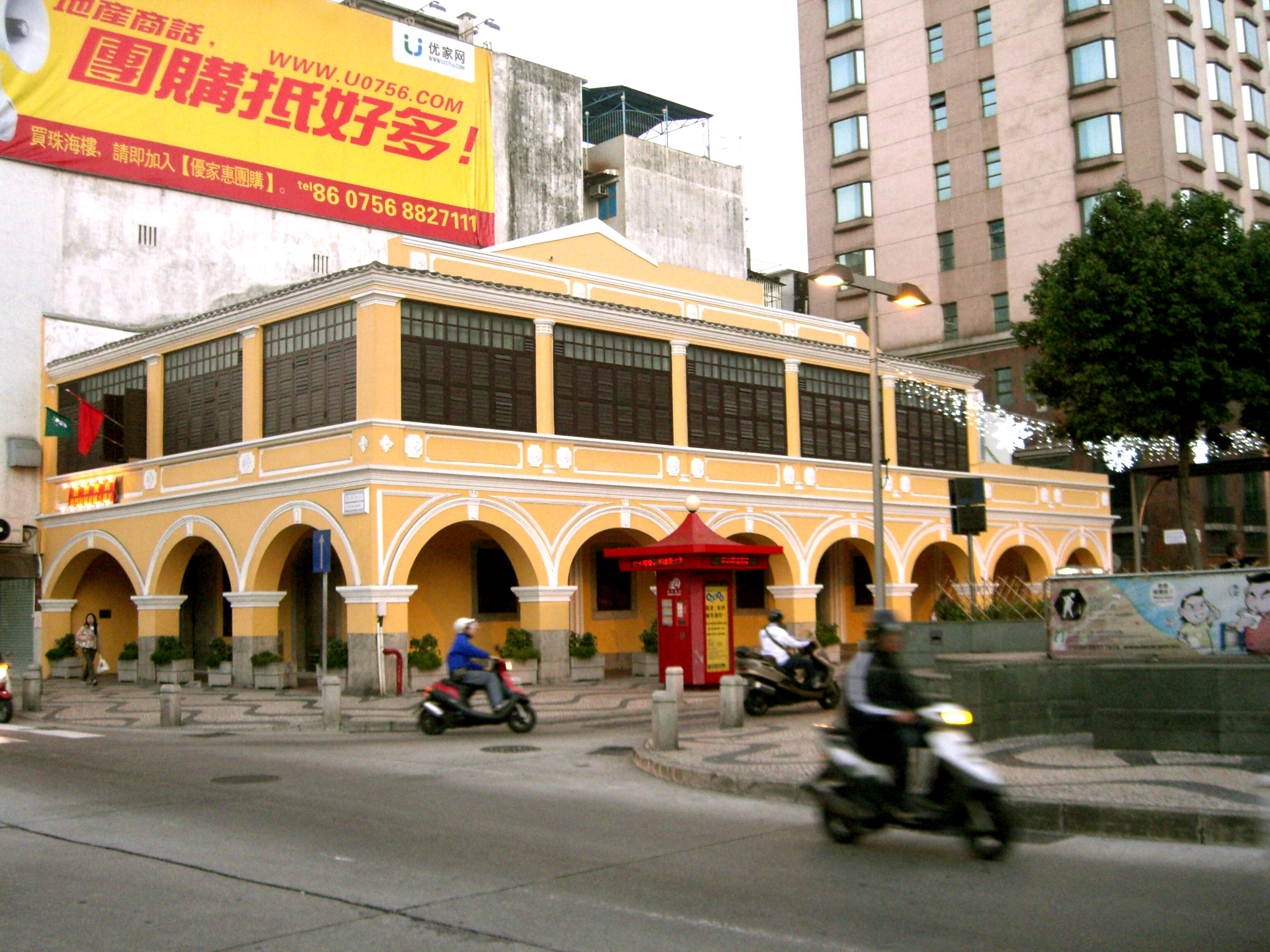 Macau Opium House